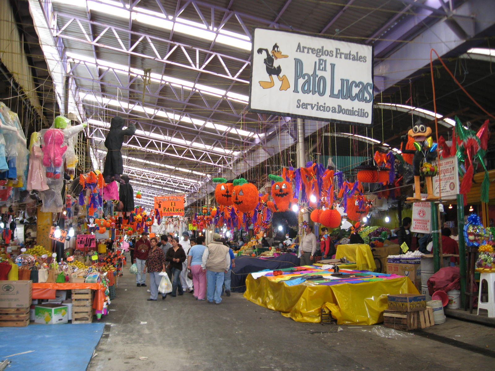 Halloween piñatas and other decorations for sale at the Jamaica Market in Mexico City